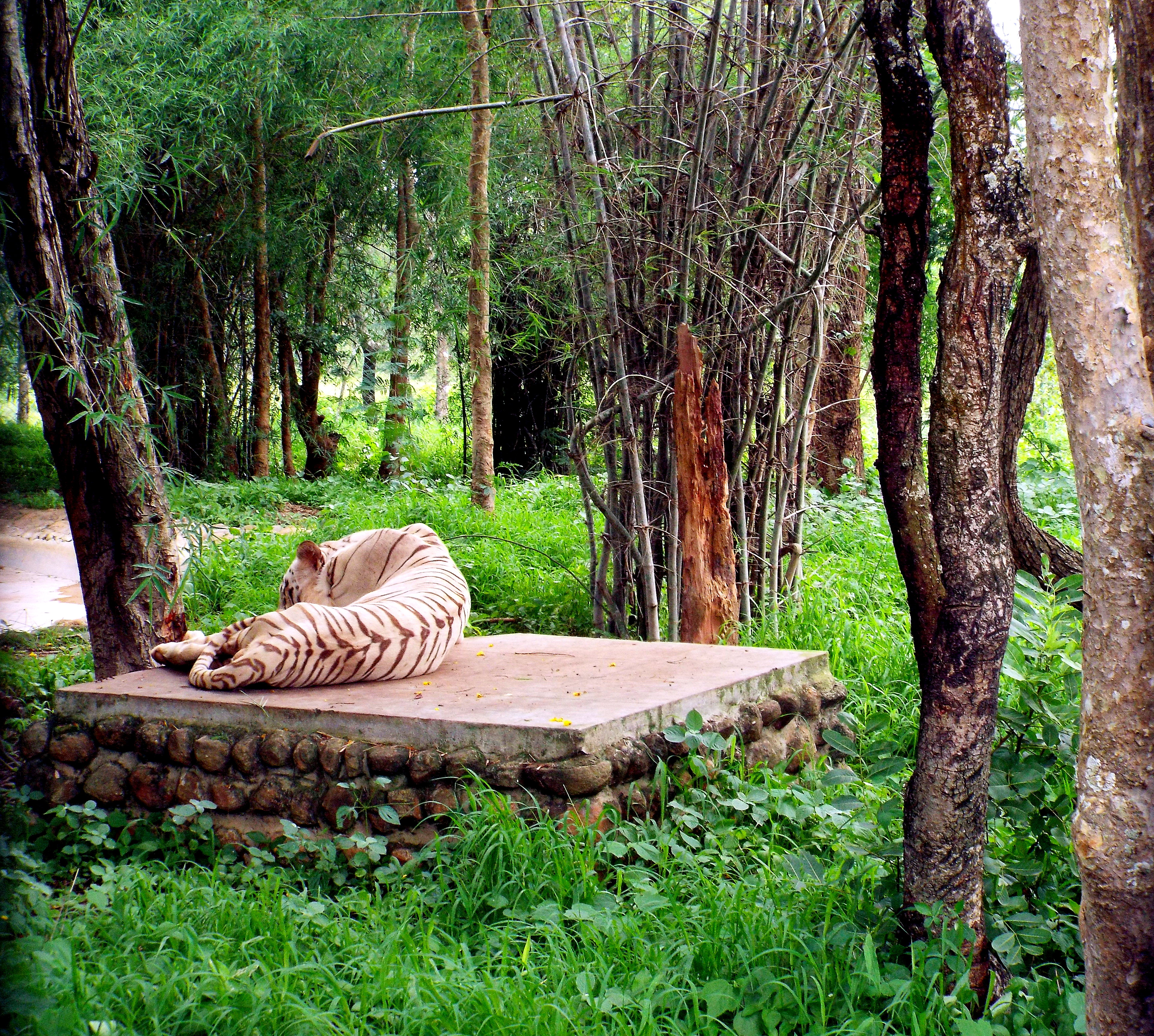 White tiger lying on a pedestal